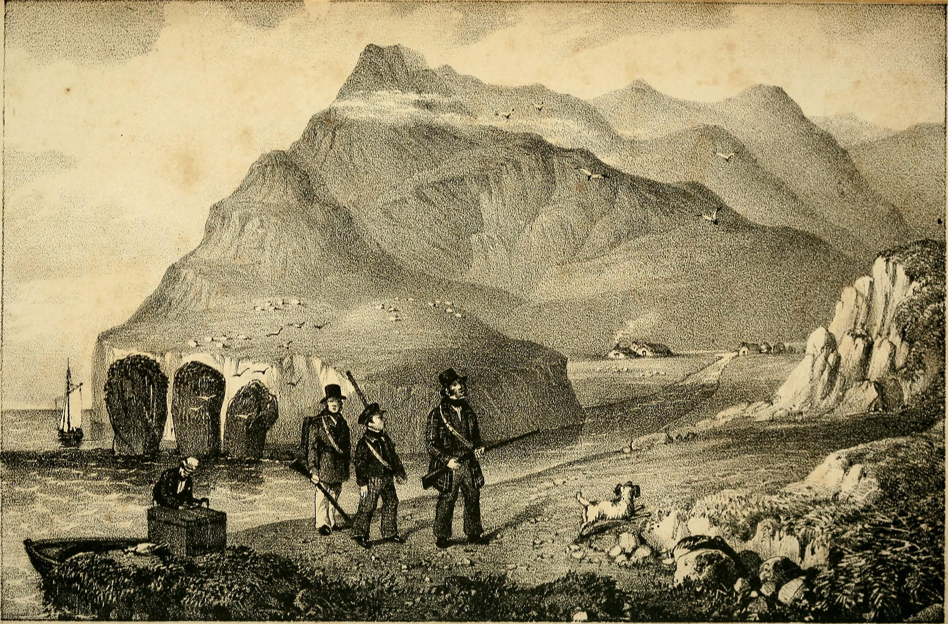 In 1831 ornithologist Robert Dunn visited Shetland to obtain specimens for his collection. He visited Ronas Voe and Ronas Hill a number of times, and this engraving from a sketch made by Dunn shows (from right to left) the Dunn's dog, Dunn himself, Dunn's son, Dunn's servant from Lerwick who he employed for the duration of his visit to Shetland, and the boatman employed to take Dunn to various locations around the area. The boatman is seen moving a chest from his boat, while a specimen is seen lying in the boat. Another boat under sail is in the background, adjacent to some of the sea stacks at the south end of the Lang Ayre. The image is used as the frontispiece to Robert Dunn's book The Ornithologist's Guide to the Islands of Orkney and Shetland